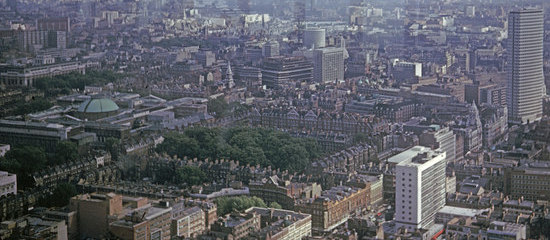 Bedford Square Original description: Looking South-East from Telecom Tower, London taken 1966 At the time this photograph was taken we were in what was called the GPO Tower, now called the Telecom Tower, and it was possible for members of the public to go up to the viewing level. How different the skyline was with Centre Point on the right the tallest building. We can also see the British Museum with the green roof on the left, plus along the Thames what is now the Tate Modern is a working power station with smoke coming out of the chimney. We can see St Paul's with scaffolding round the dome and Tower Bridge and the old London Bridge, which is now in Arizona, to the right of St Paul's.